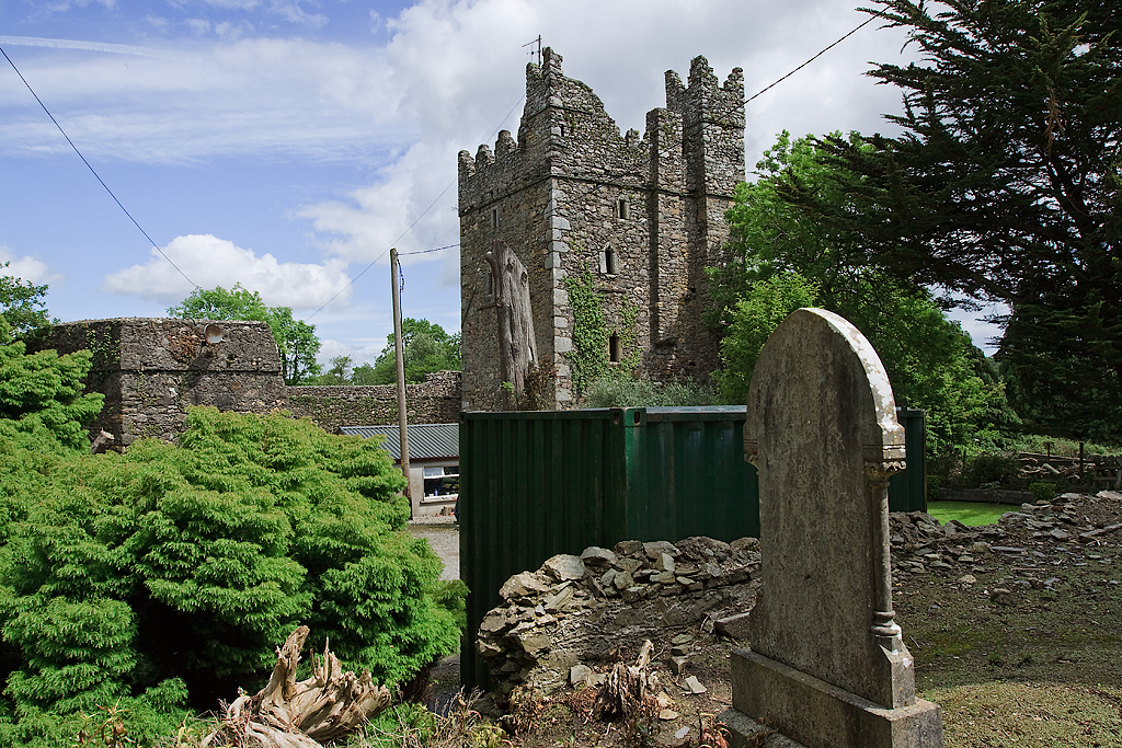 Castles of Leinster: Rathmacnee, Wexford